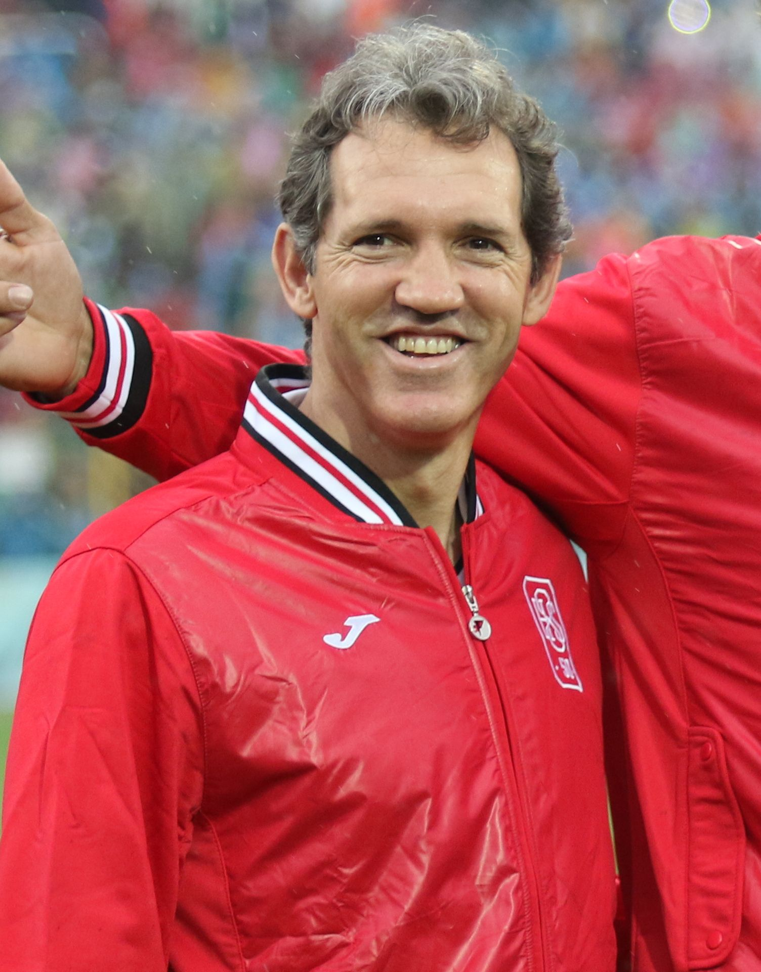 Ion Andoni Goikoetxea Lasa (born 21 October 1965) is a Spanish retired footballer. An attacking player of wide range, he operated in various positions on the right side of the pitch (right back, midfielder or forward), and was best known for his Barcelona spell, during the club's Dream Team years